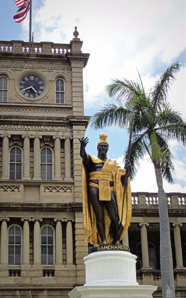 Kamehameha Statue, Downtown Honolulu, Hawaii